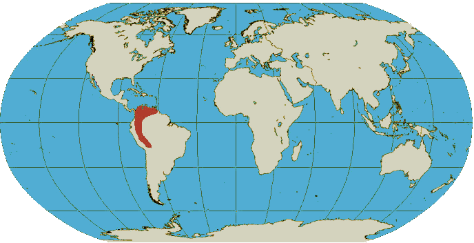 upload own hand coloured distribution map